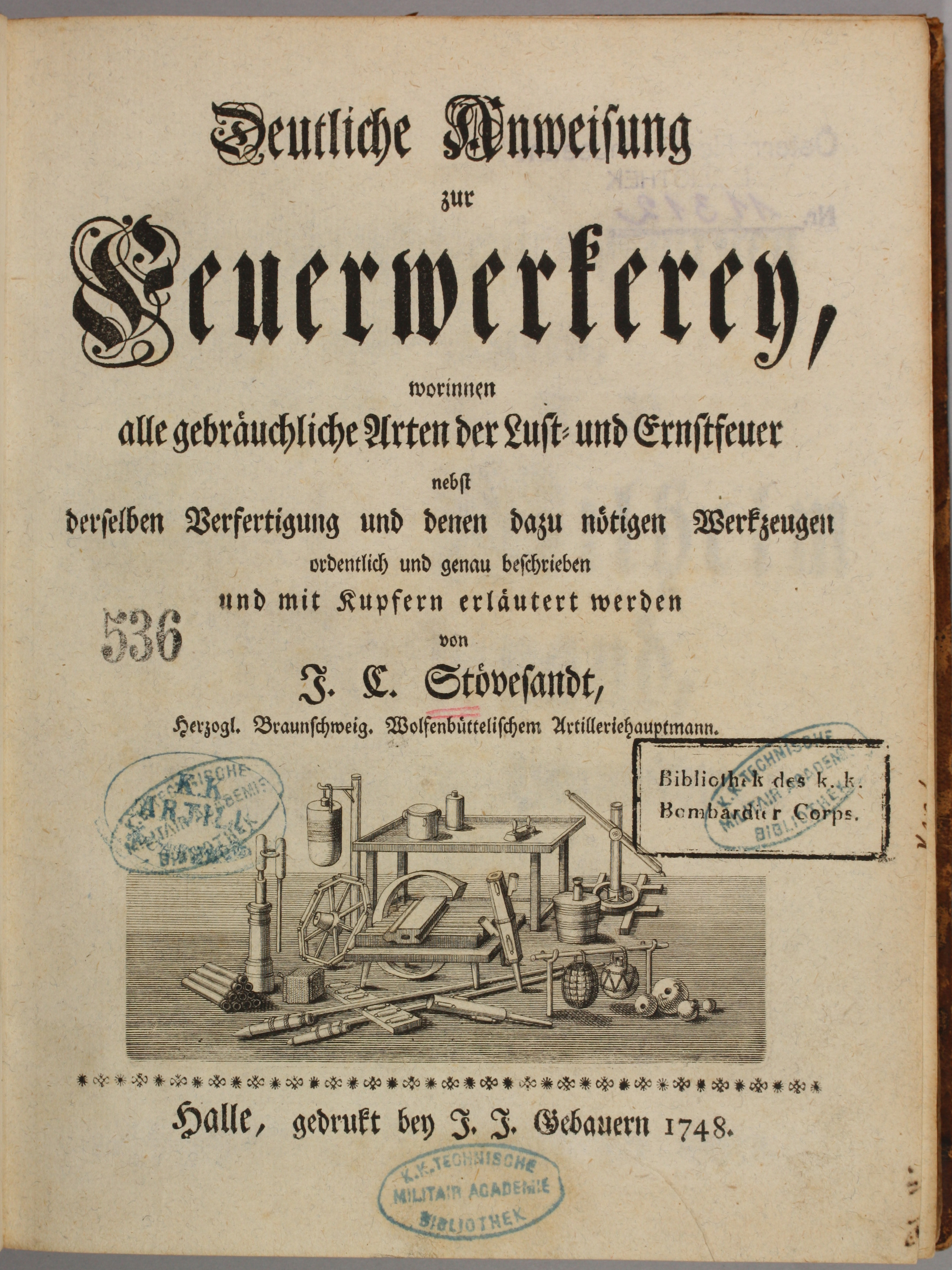 Title page of Deutliche Anweisung zur Feuerwerkerey, worinnen alle gebräuchliche Arten der Lust- und Ernstfeuer nebst derselben Verfertigung und denen dazu nötigen Werkzeugen ordentlich und genau beschrieben und mit Kupfern erläutert werden von J.C. Stövesandt ... Halle, gedrukt bey J.J. Gebauern [1748] First edition of the most famous German fireworks book of the 18th century. The many plates and recipes describe quite precisely how fireworks were made, to the point where a modern commentator exclaimed that in this book “Firework making has become an exact science.”